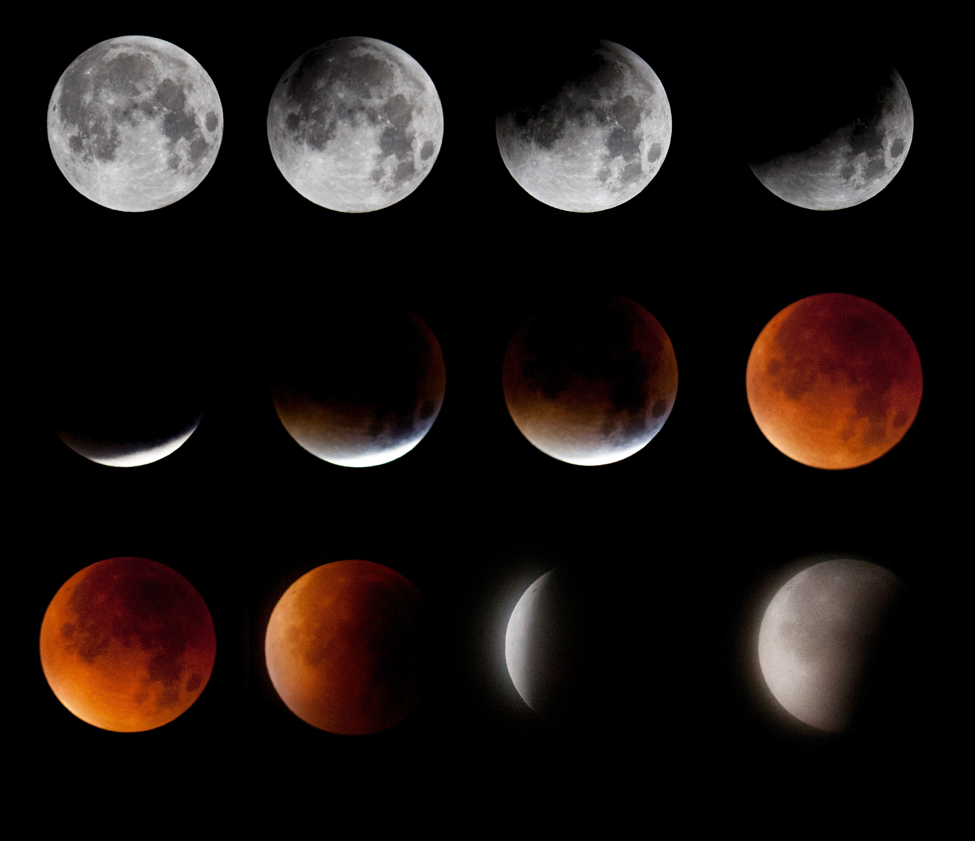 Lunareclipse over Oslo 28.09.2015 Måneformørkelse over Oslo 28.09.2015